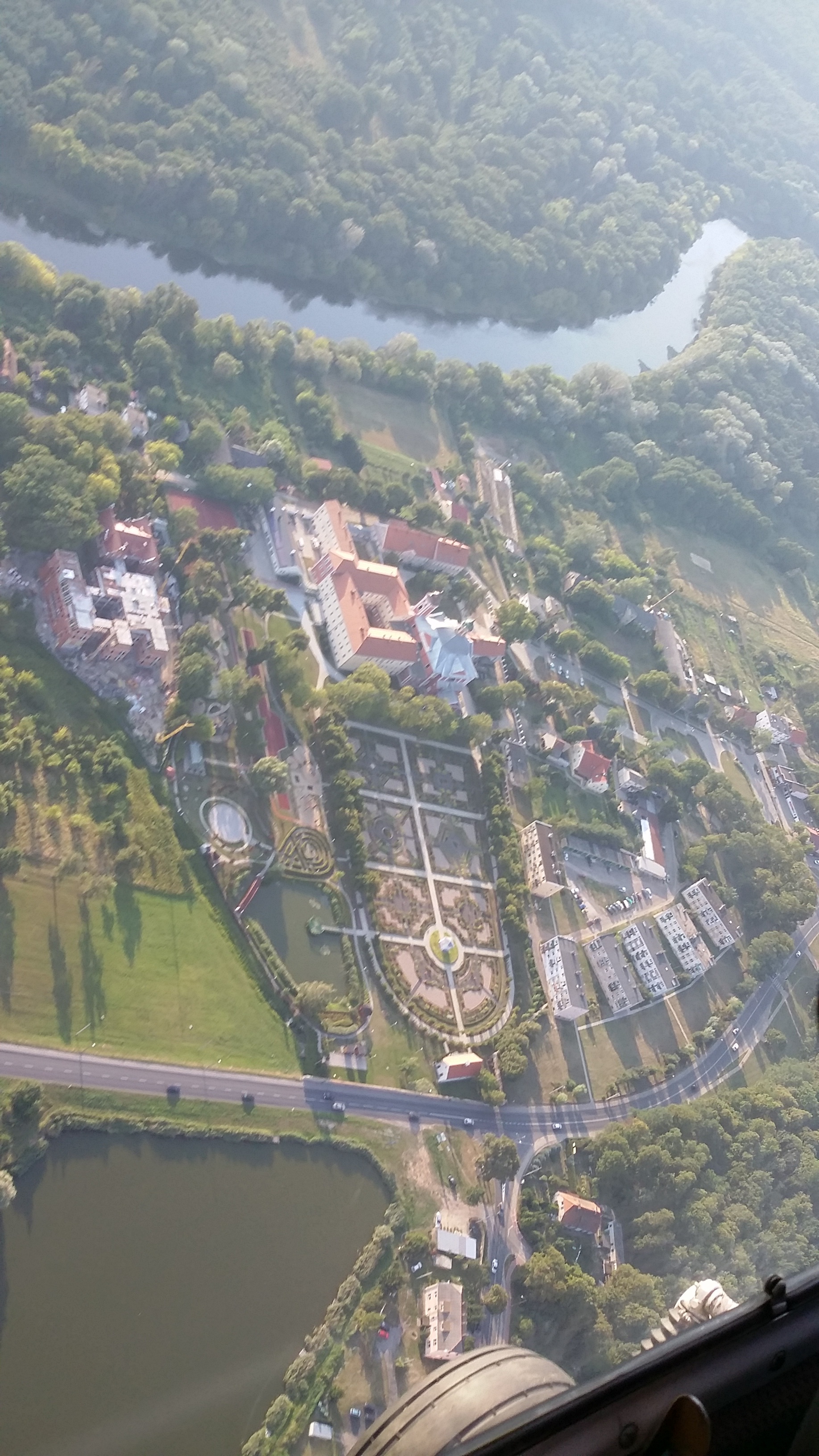 Saint John the Baptist church and park in Owińska - aerial view